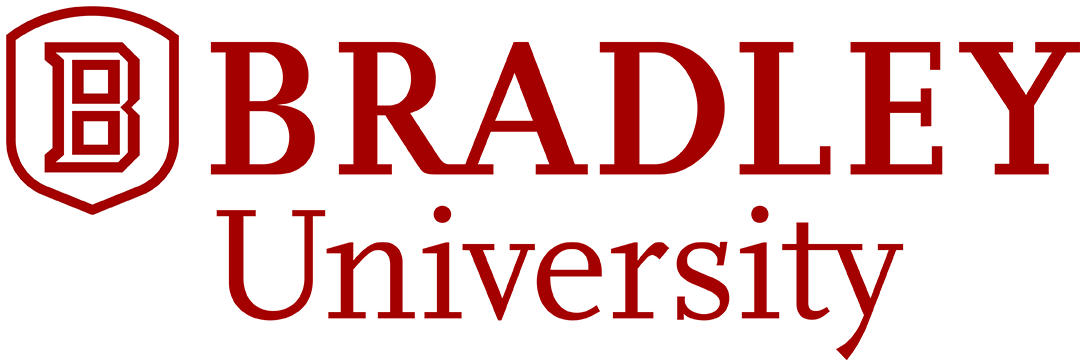 The left aligned version of Bradley University's logo